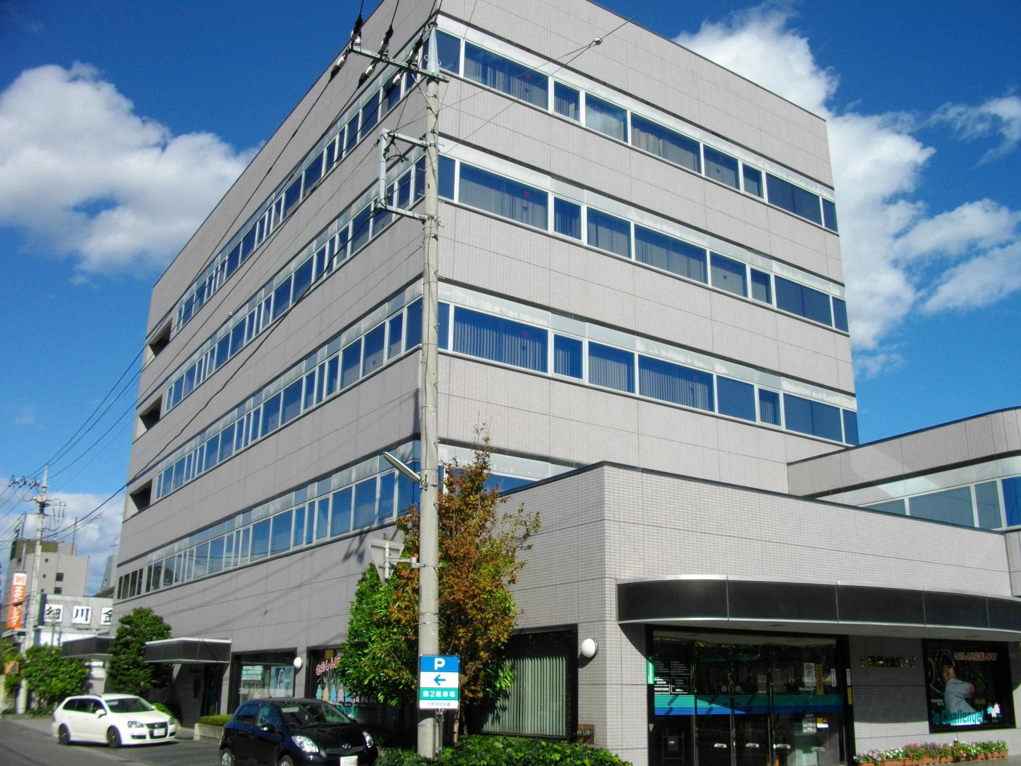 Sano Shinkin Bank Head Office